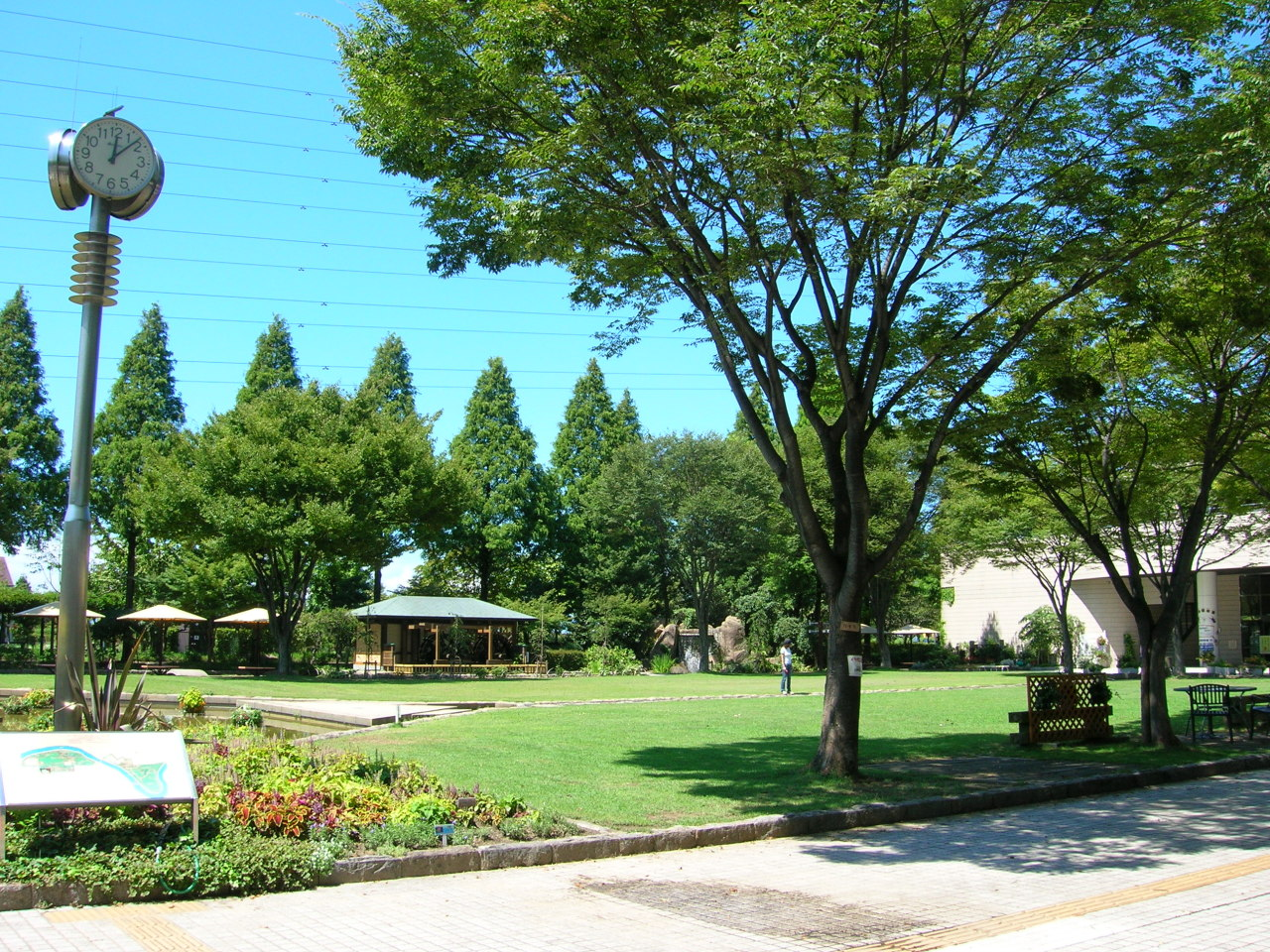 Todagawa Ryokuchi (Todagawa green park) Loc: Minato-ku, Nagoya city, Aichi Prefecture, Japan.